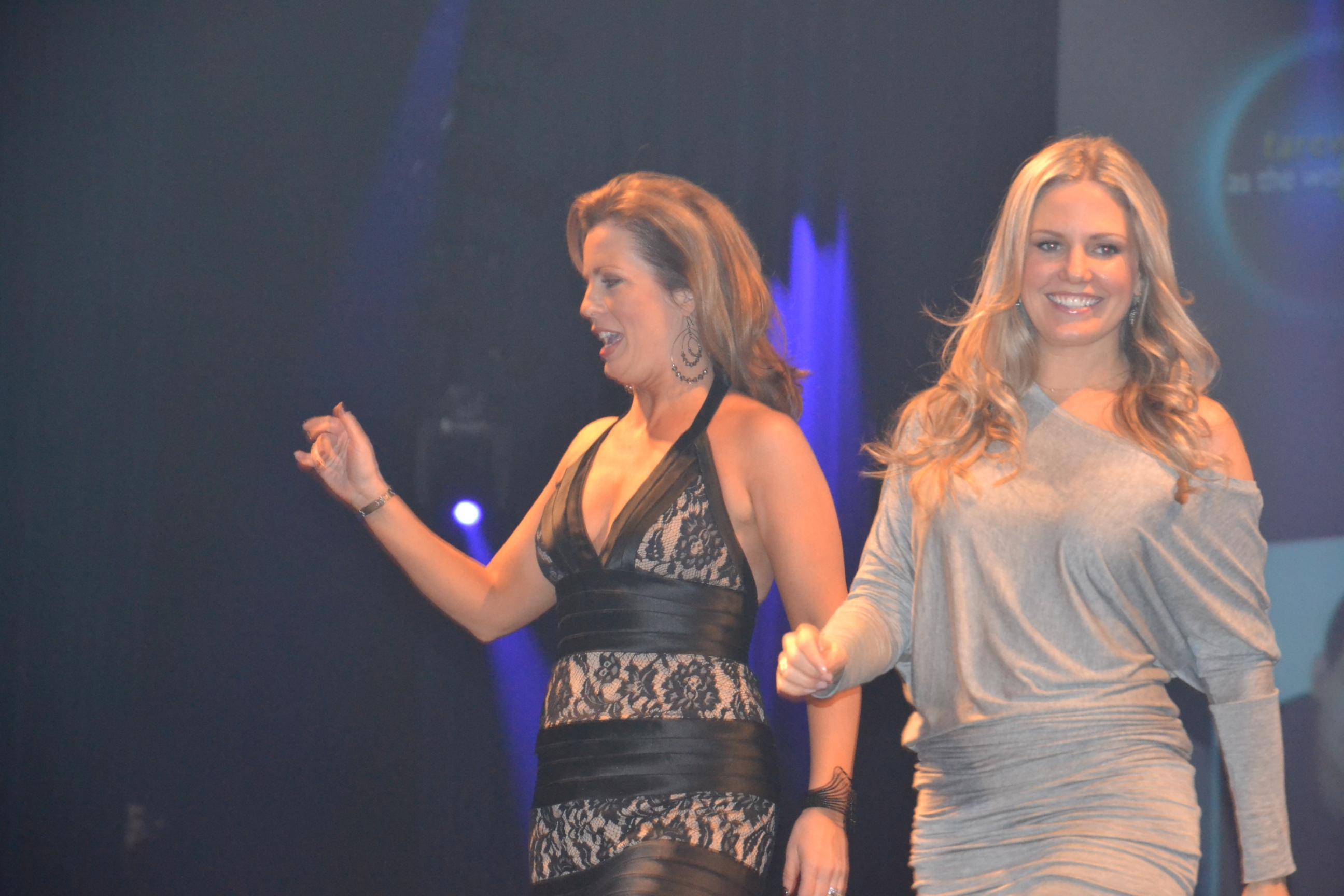 As The World Turns farewell event in Hilversum (The Netherlands)